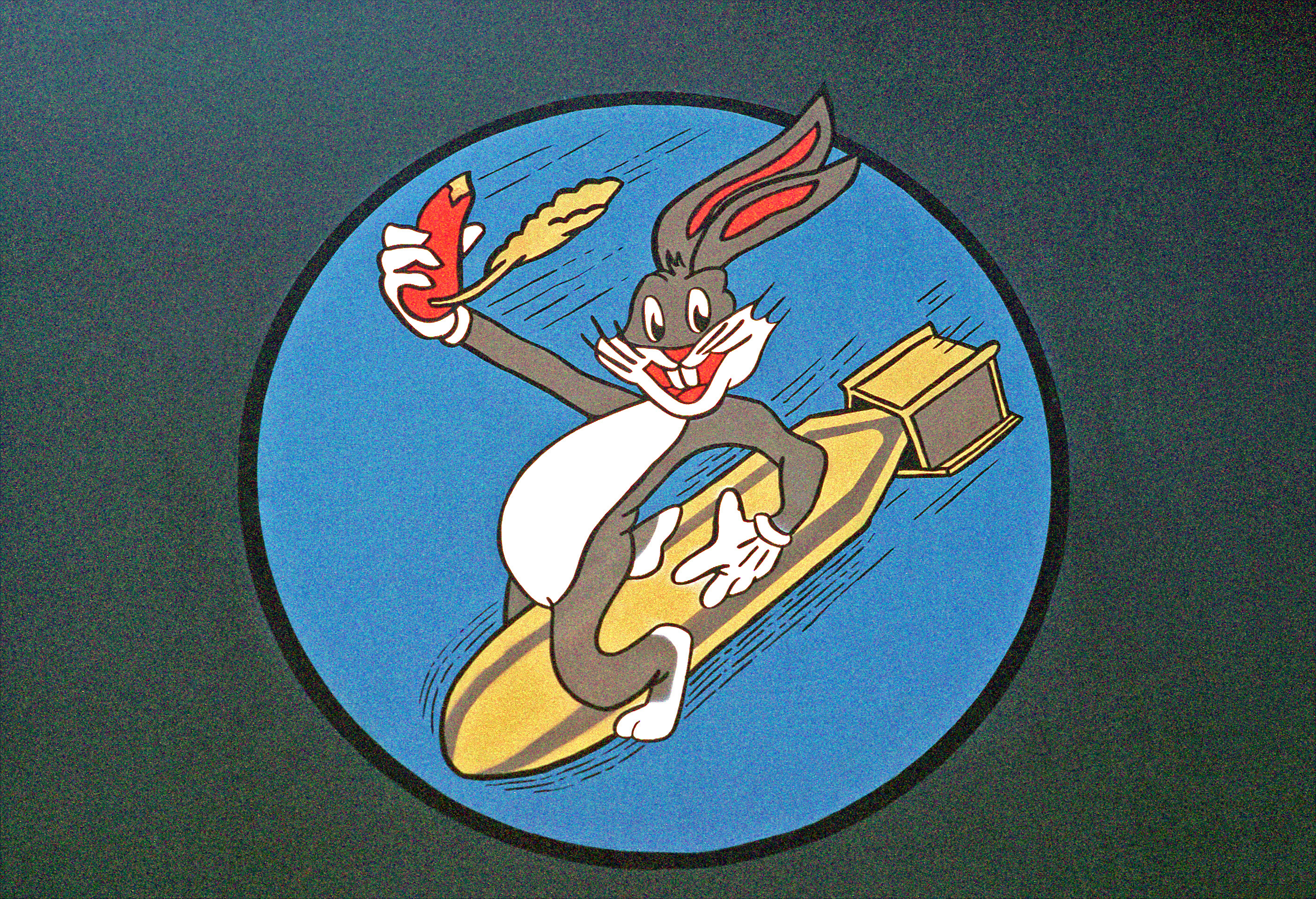 Nose art on FB-111 at March Air Force Base, California, of Bugs Bunny enjoying a carrot and a ride on a descending bomb compliments of the 530th Bombardment Squadron, 380th Bombardmen Wing. The squadron's FB-111s have revived the nose art originally used by the B-24 Liberators of the 530th during World War II.